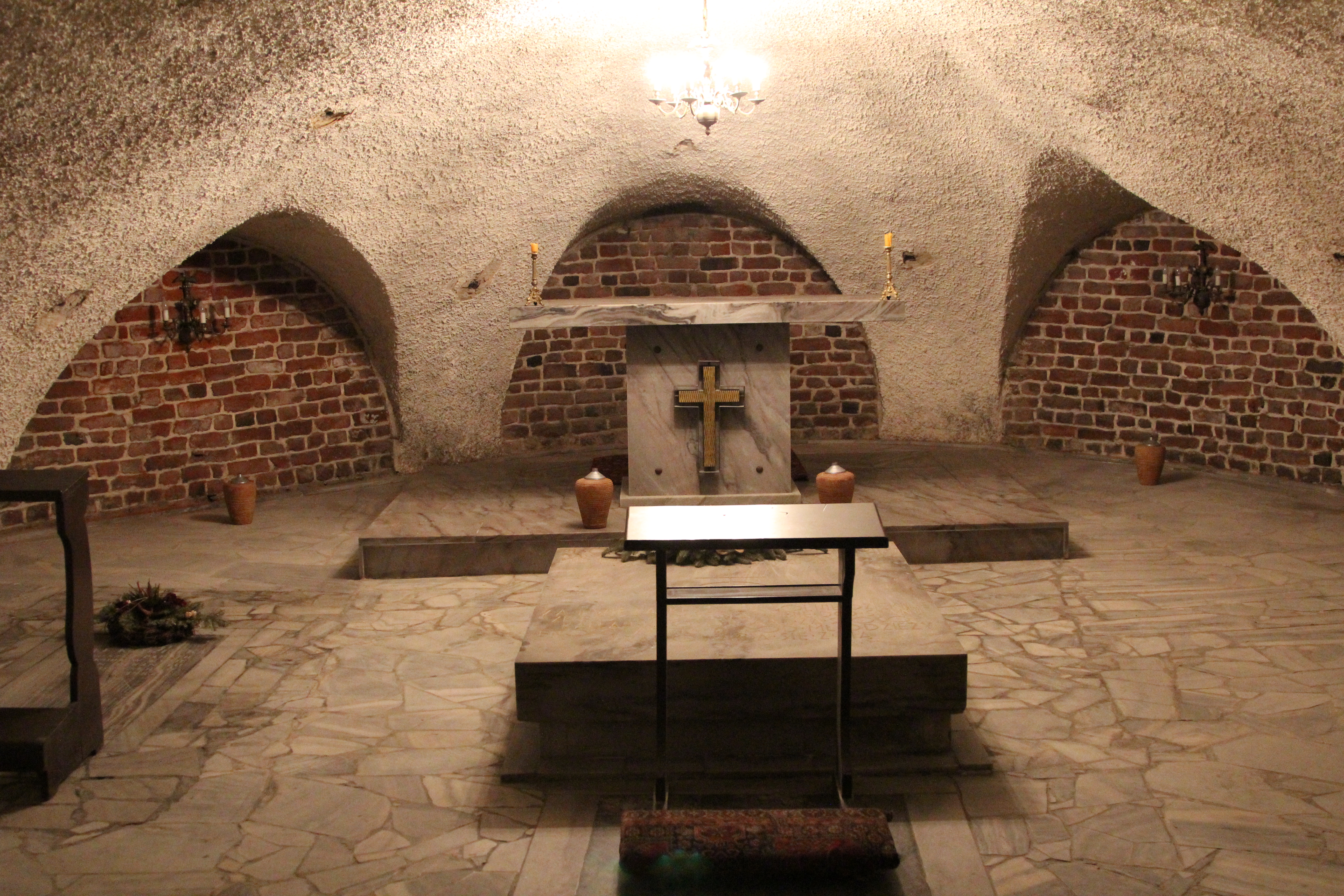 Klemens Neumann crypt in Saints James and Agnes Basilica in Nysa